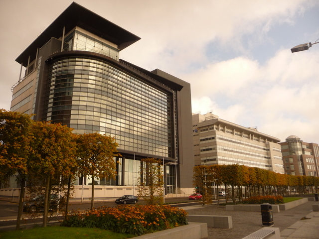 Glasgow: new offices and square trees on Broomielaw Looking from the riverside path along the A814 Broomielaw. Between us and it are two lines of cubically pruned trees, with modern office buildings in the background.